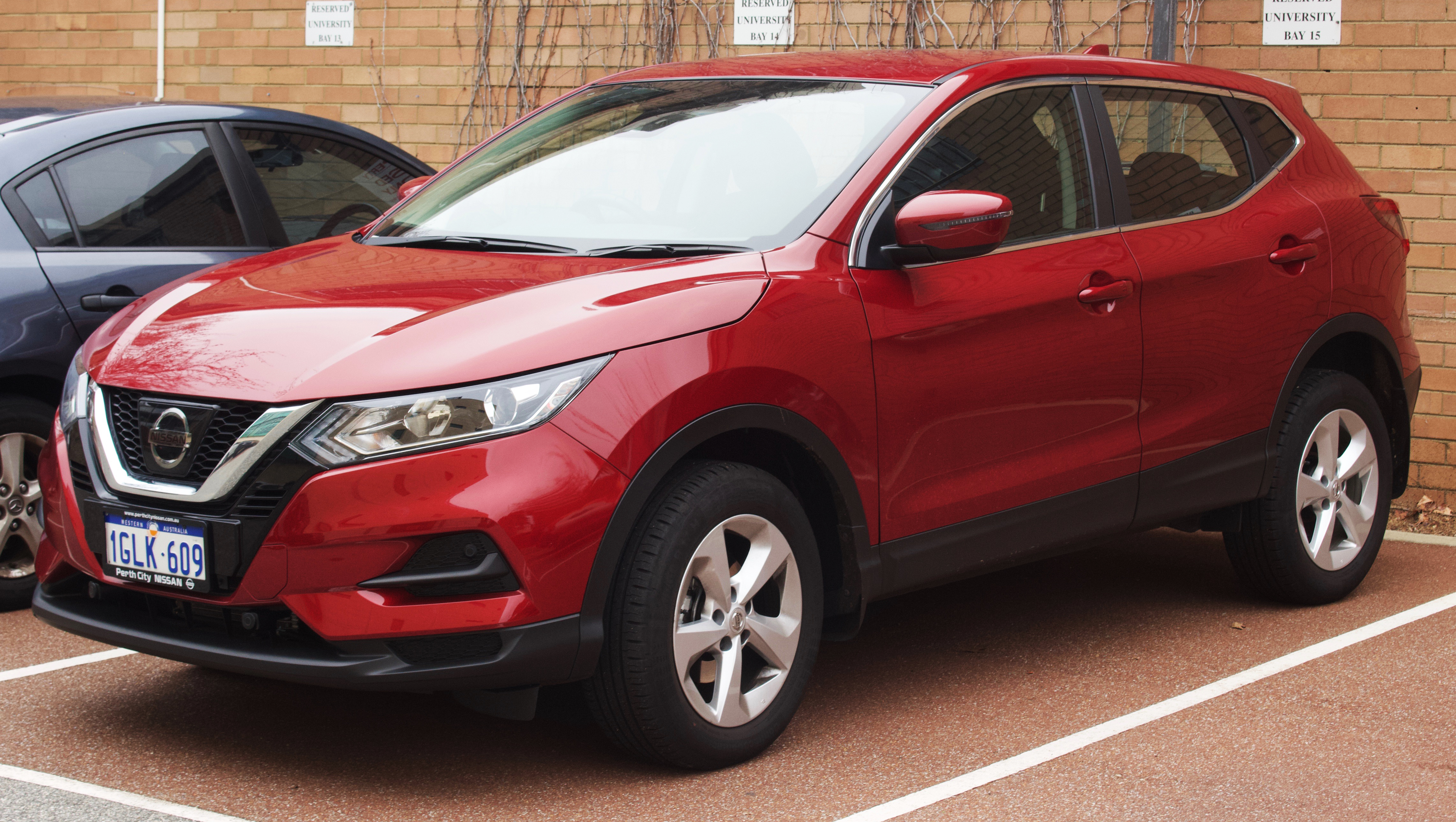 2018 Nissan Qashqai (J11) ST wagon. Photographed in Fremantle, Western Australia, Australia.